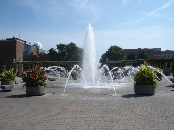 The central fountain to Indiana State University's Campus.